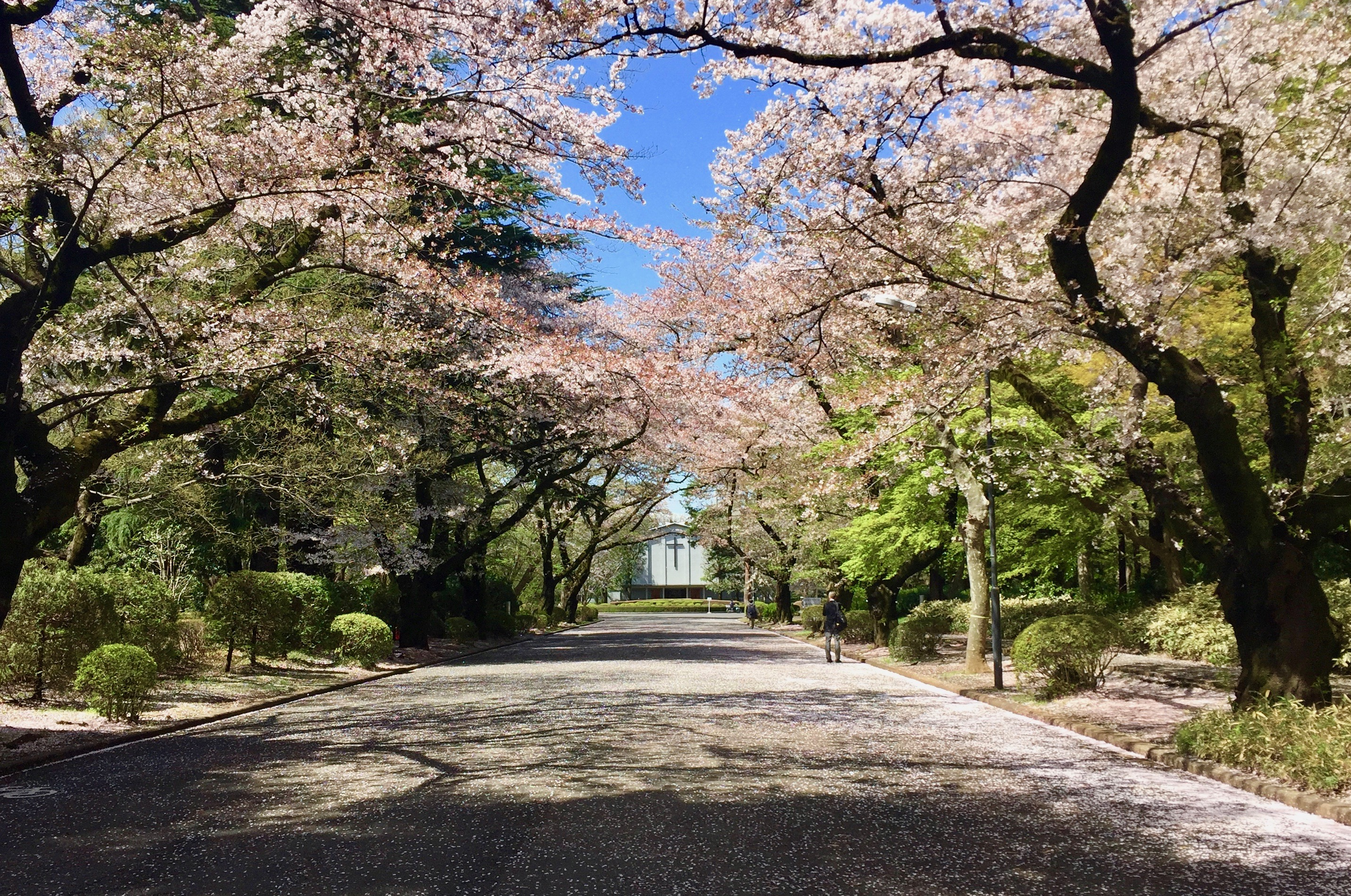 The entrance to ICU leading up to the University Chapel. In spring, the path is surrounded by cherry blossoms.